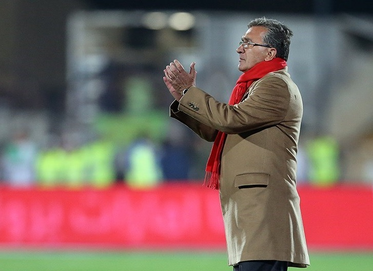 Branko Ivanković